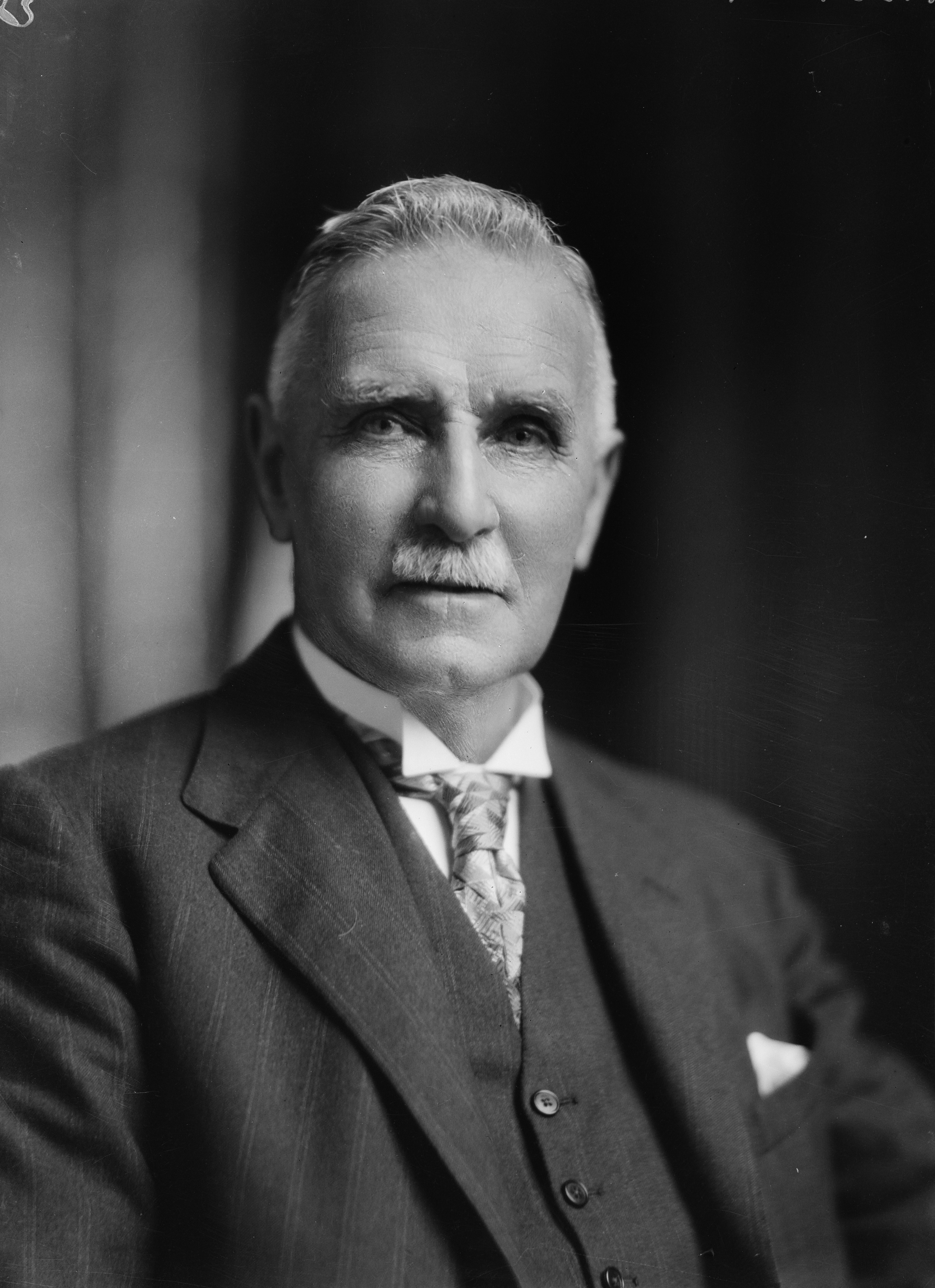 Henry Holland, photographed by Stanley Polkinghorne Andrew, circa 1929. Quantity: 1 b&w original negative(s). Physical Description: Film negative